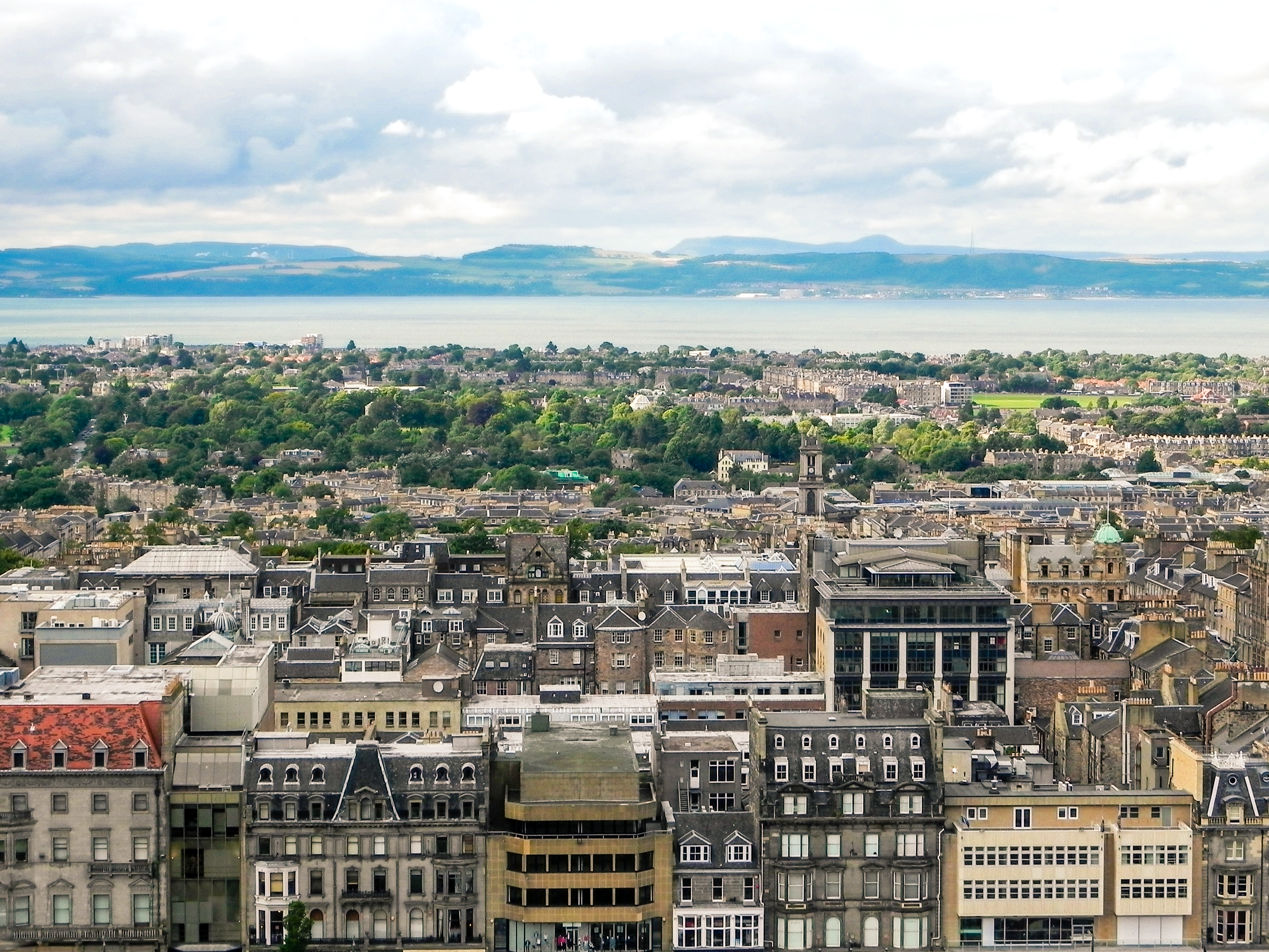 Edinburgh urban landscape, as seen from Edinburgh Castle.